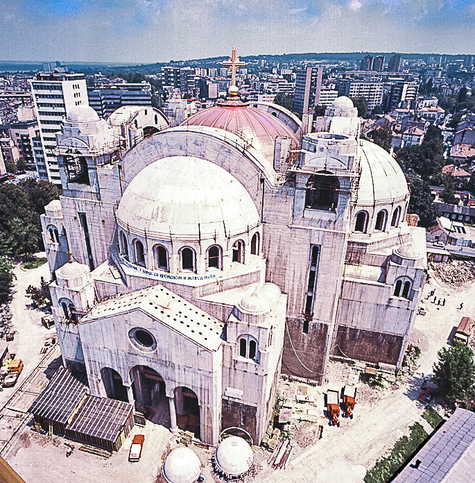 Hebung der Kuppel Juni 1989 in Belgrad